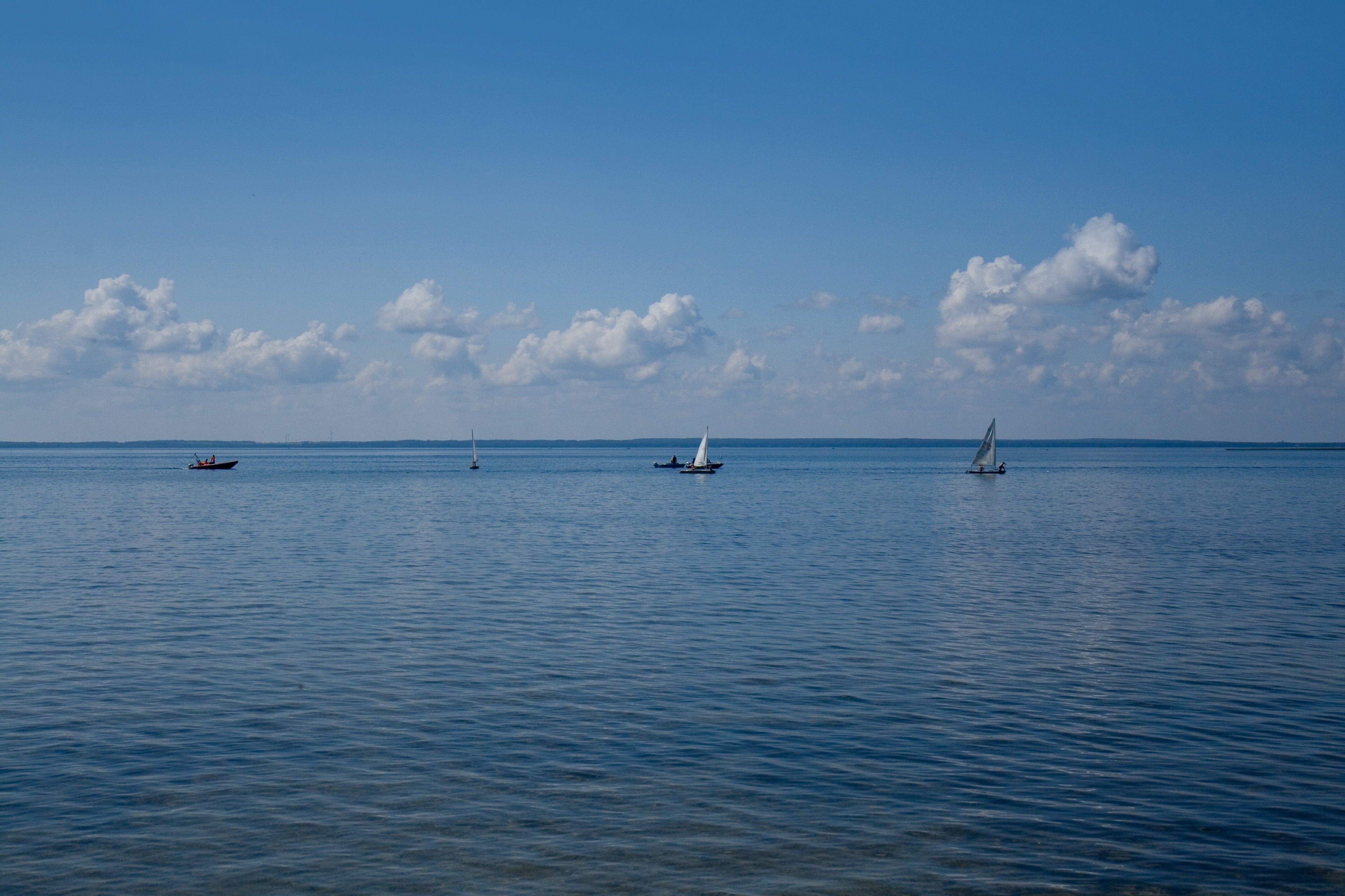 Lake Narach (Narač), Belarus. Беларуская (тарашкевіца): Возера Нарач, Беларусь.